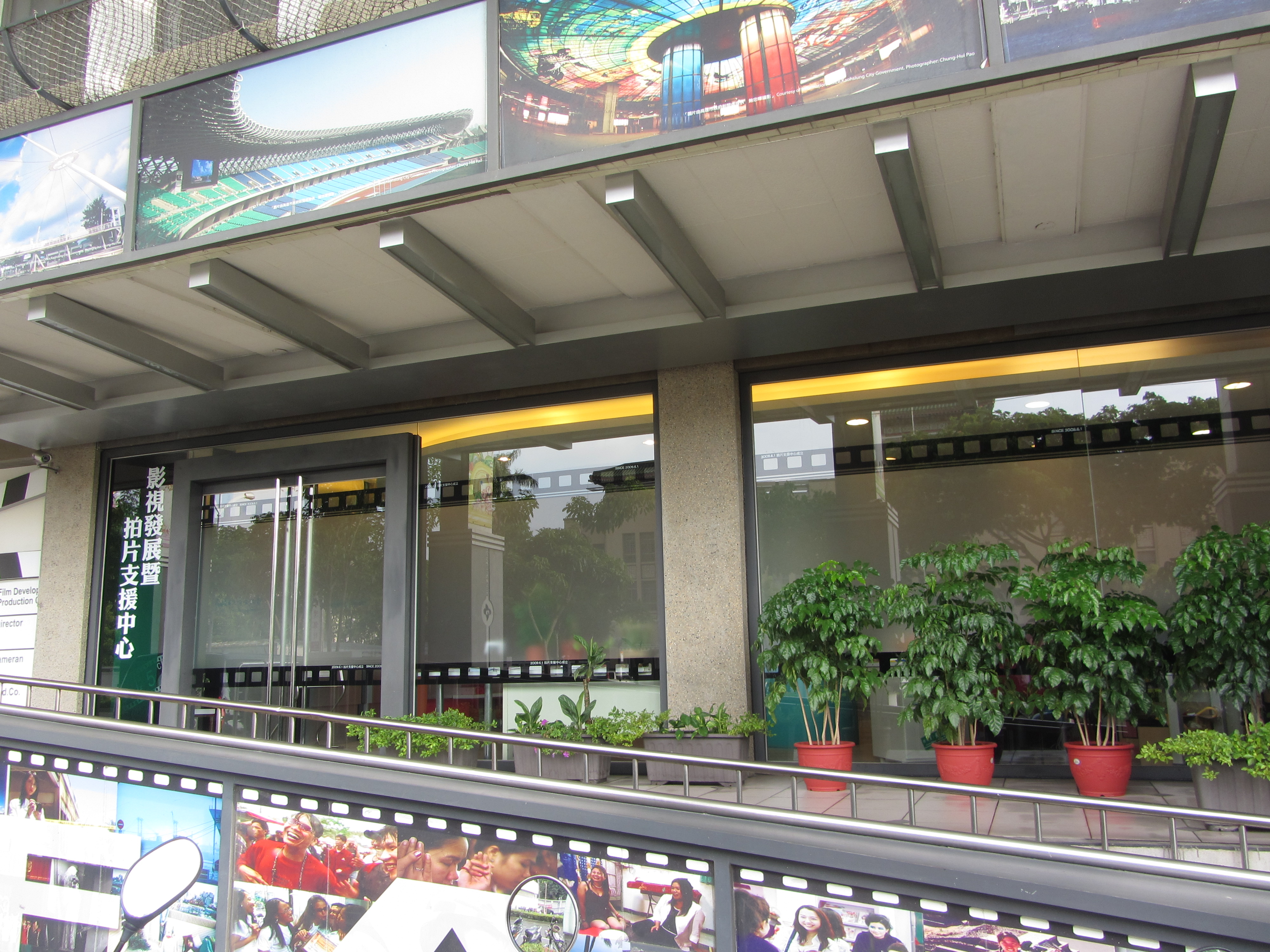 Film Development and Production Center and Filmmaking Assistance Center,Kaohsiung City Government